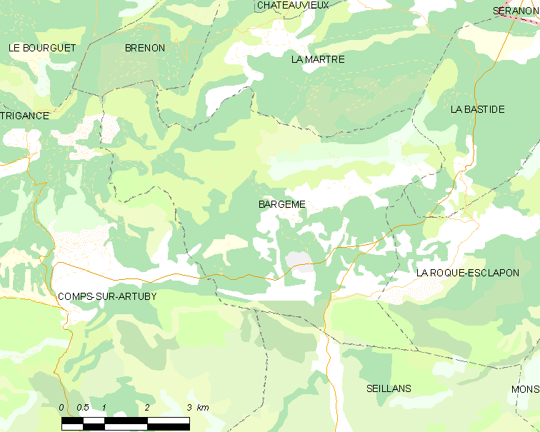 Map of French municipality Bargème